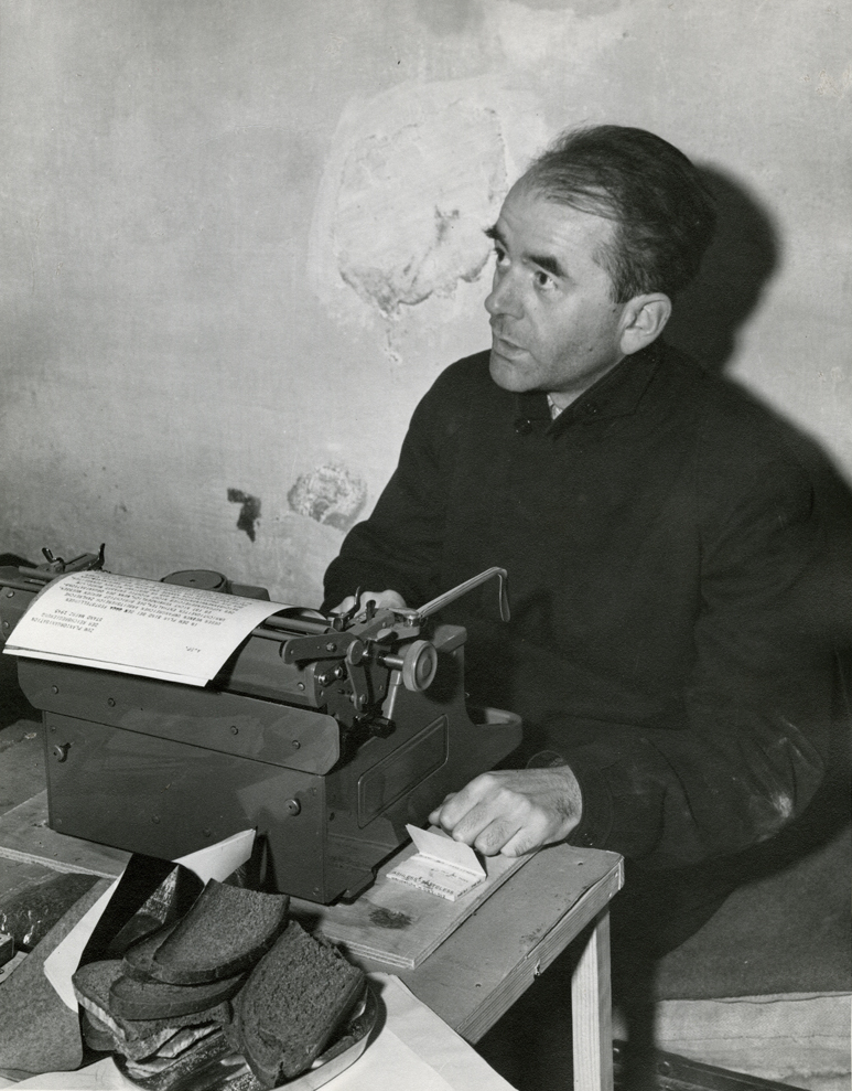 German Nazi architect Albert Speer photographed in his cell at Nuremberg, Germany, during the Nuremberg trials. Speer was photographed working at a typewriter. Gelatin silver process on paper. Image courtesy of the Harvard Law School Library, Harvard University, Cambridge, Mass.